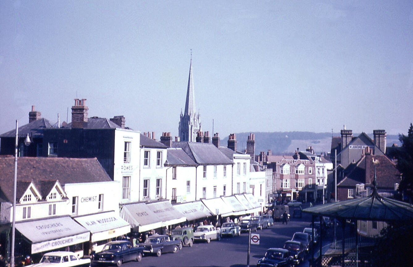 A photo of South Street in Dorking, Surrey. The photo, which is a Kodachrome slide, was probably taken in 1959 or 1960 judging by the models of cars. Scratches and marks have been removed where possible and the colour balance changed slightly, but it is still too blue. The photo has also been sharpened slightly.